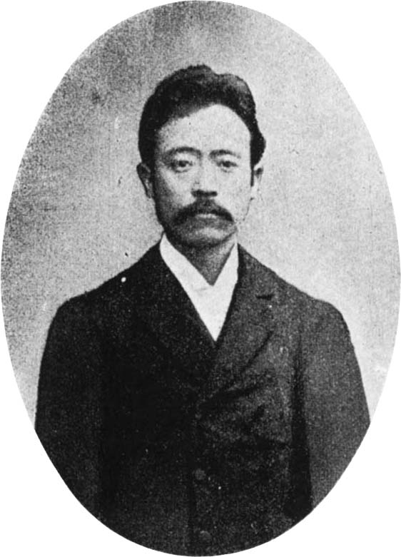 Mr. Sadaharu Kuroda, professor of the Women's Higher Normal School.